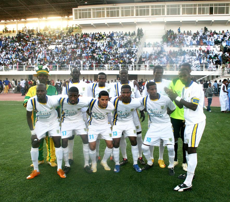 [Mohamed Foily] Full story